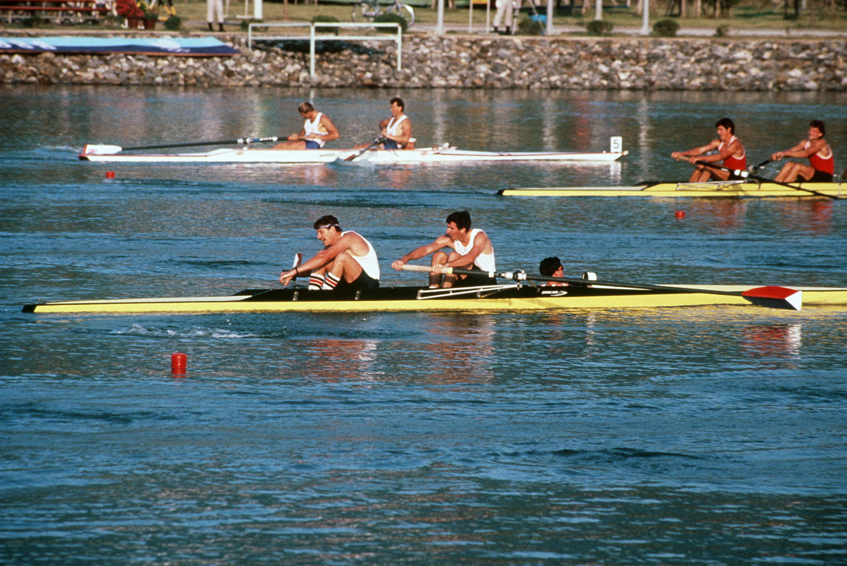 Daniel Lyons and Robert Espeseth of the US Olympic rowing team vie for the gold in the pairs competition on the Han River Regatta Rowing Venue during the XXIV Olympic Games.